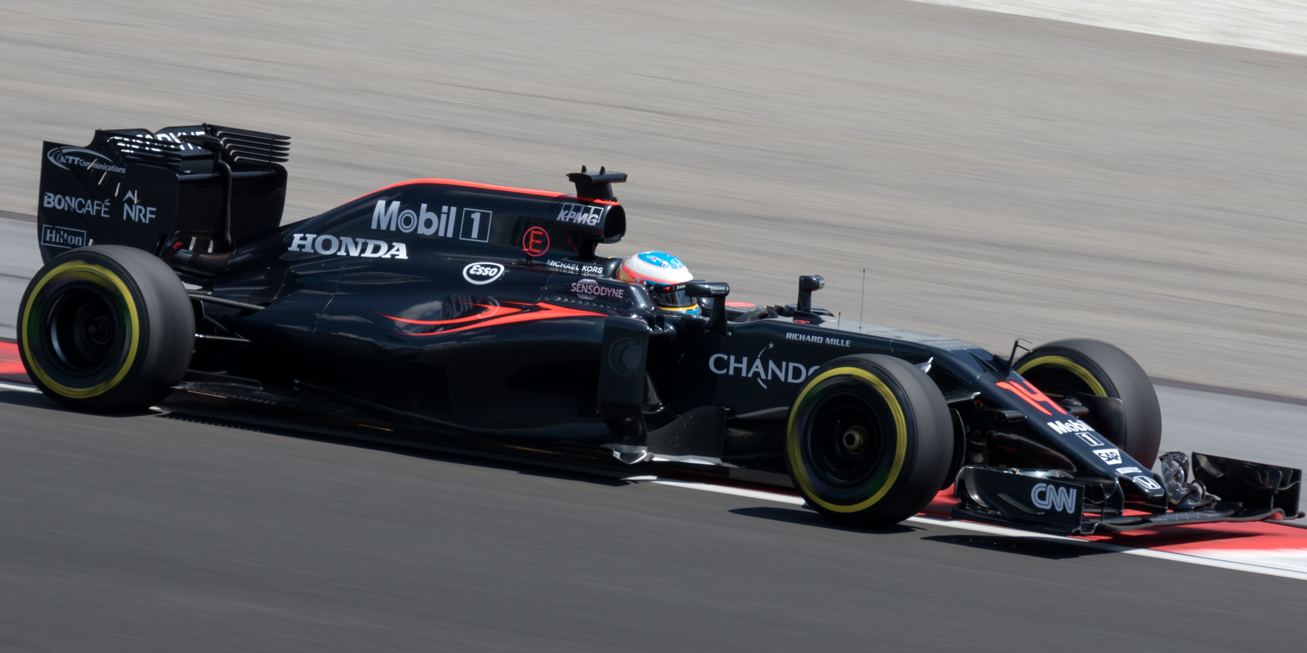 Formula One 2016 Rd.16 Malaysian GP: Fernando Alonso (McLaren)